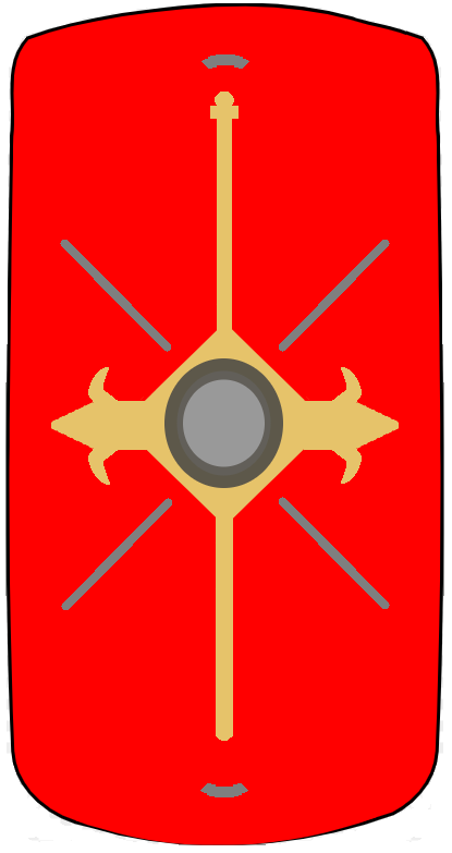 Drawn from a photograph of a reconstruction in: Buckland, Paul (1978). "A First-Century Shield from Doncaster, Yorkshire". Britannia. 9: 247–269. ISSN 0068-113X. Centre boss is domed iron, surround is brass, detail is from iron rivets. Background colour not known and assumed red. Shield outline taken from File:Roman shield.svg